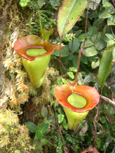 Nepenthes jacquelineae from Bukit Barisan, Sumatra (2,200 m asl).